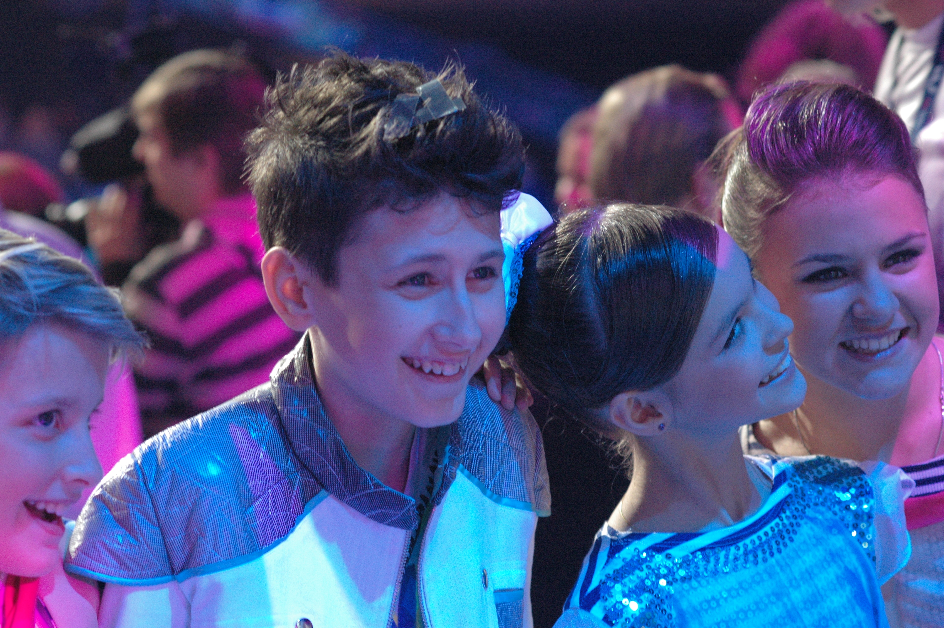 Egor Zheshko (Belarus) during the Junior Eurovision Song Contest 2012 in Amsterdam.